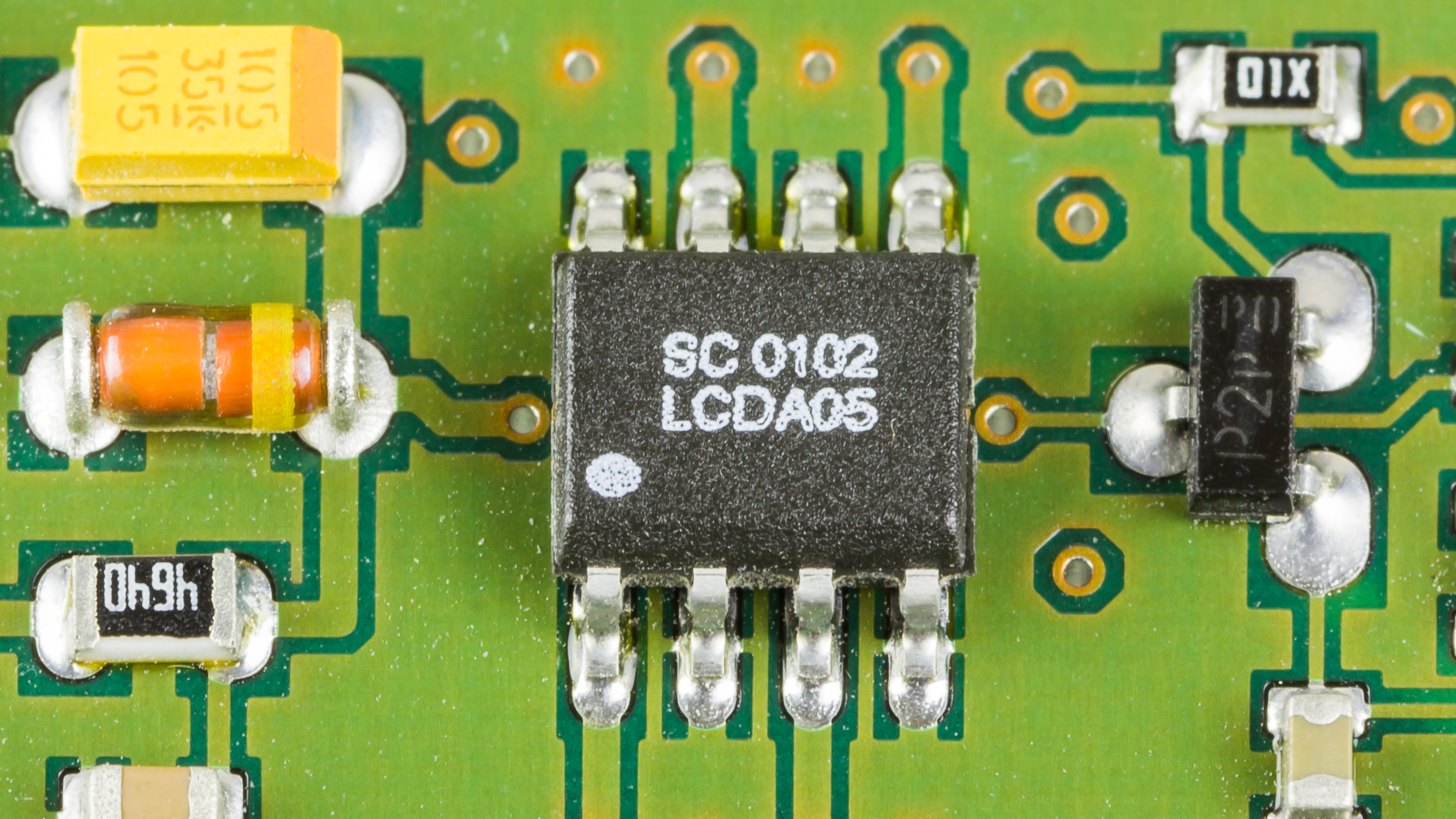 Siemens NTBBA 40 183 340-100 - LCDA05 (Manufacturer unknown) - TVS Diode Array